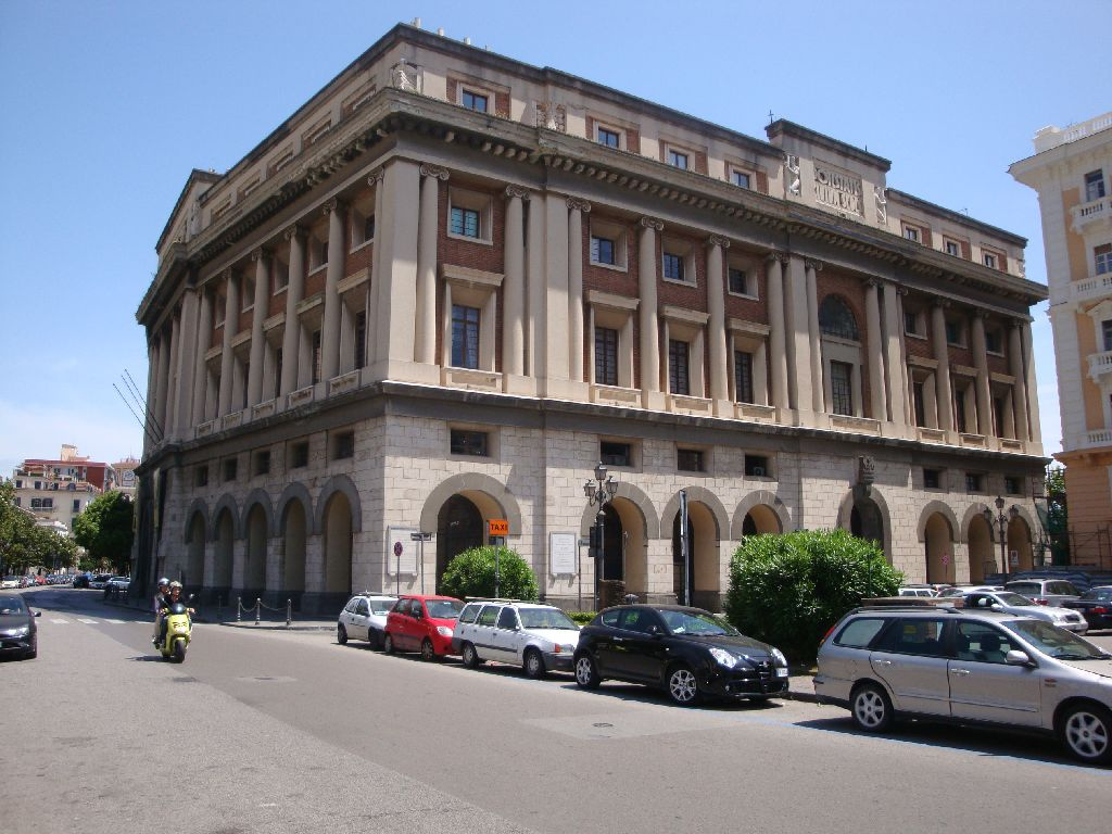 Salerno, Italy, Town Hall